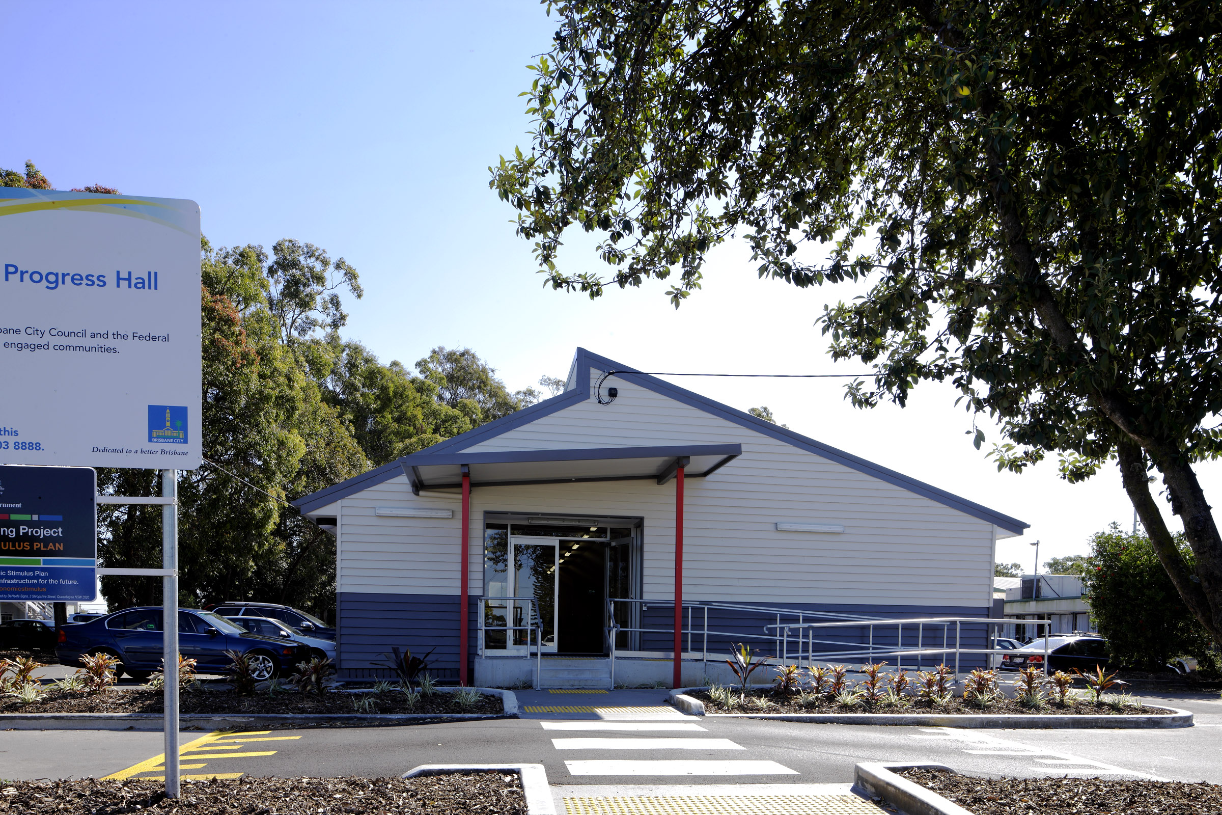 Upper Mt Gravatt Progress Hall is an old style hall located opposite McDonalds, between Upper Mt Gravatt Primary School and the Mt Gravatt Bowls Club.